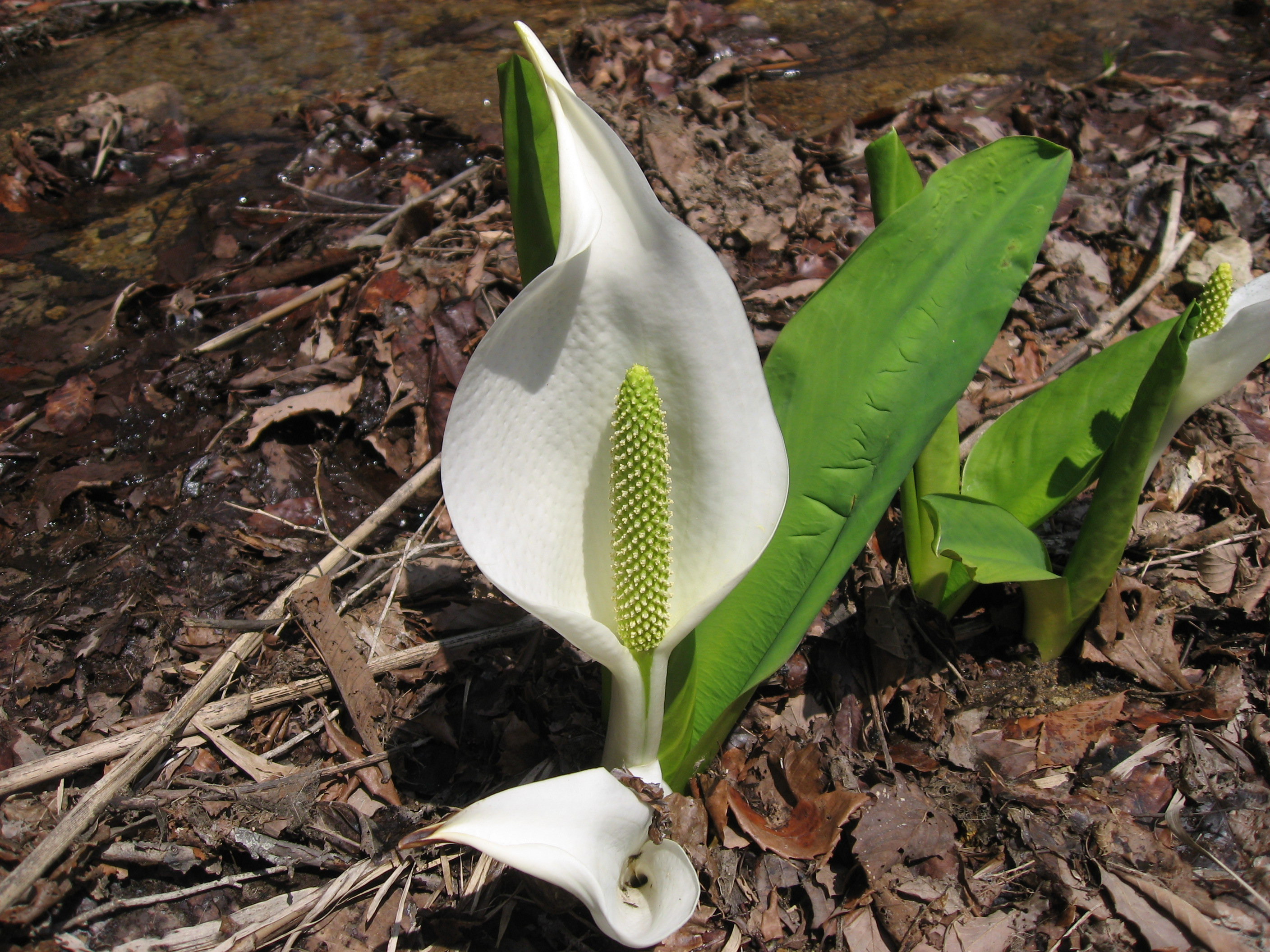 Lysichiton camtschatcensis, Aizu area, Fukushima pref., Japan